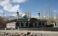 Imambara Zadibal is the first Imambara constructed in Kashmir Valley by Kaji Chak, minister in the regime of Sultan Mohammad in the year 1518. It was burnt and destroyed in the years 1548, 1585, 1636, 1686, 1719, 1741, 1762, 1801, 1830 and 1872 CE, by fanatic Sunni militias of the area and abroad. The ancient Imambara was taken down in 2004 to be replaced by the new structure of the shrine that stands today. The shrine is large enough to hold more than 32,000 visitors at a time. Inspired by Persian style architecture, Imambara Zadibal is a two-storey building. It is constructed of oriental bricks and this structure holds Maharaji bricks that cover an area of over 75 square meters. Antique and striking, this shrine has various sideways floor raising known as Gulam Gardish. There’s a central ground level floor that’s called Pokhr. It also houses a large gallery of four gates. Currently, the structure is under the supervision of All Jammu and Kashmir Shia Association, who take care of its maintenance. However, the structure that we see today is still undergoing construction work at a slow pace.